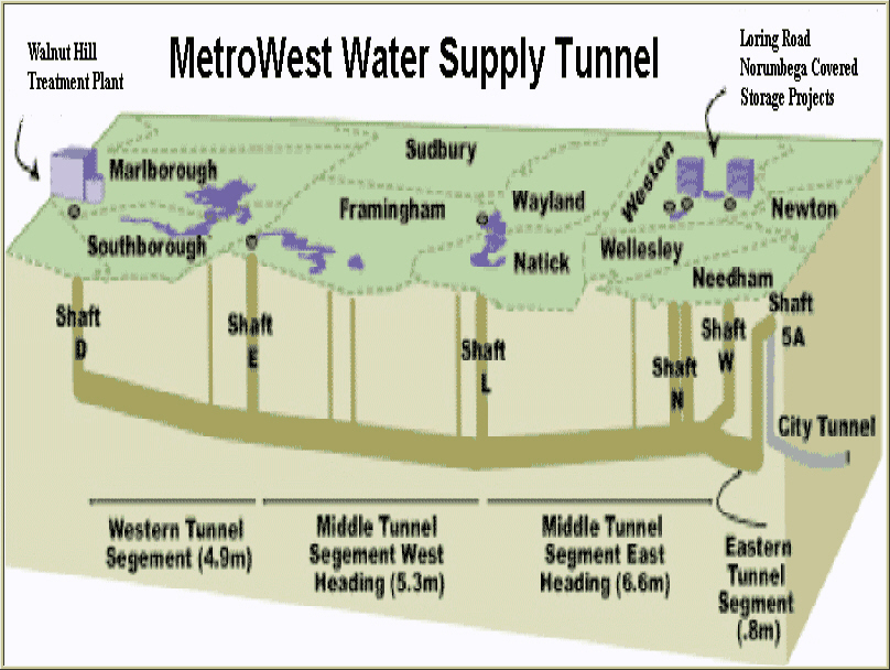 Original drawing by Richard B. Johnson using MWRA schematic as a sample.